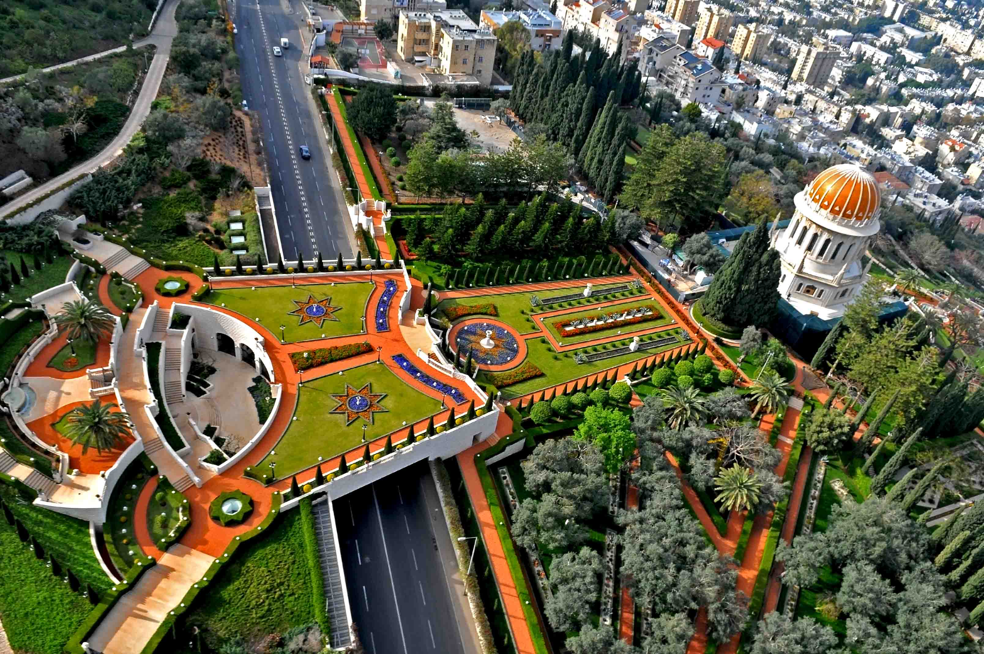 The gardens and Shrine of the Báb, including the bridge above the Haziyonuth Avenue